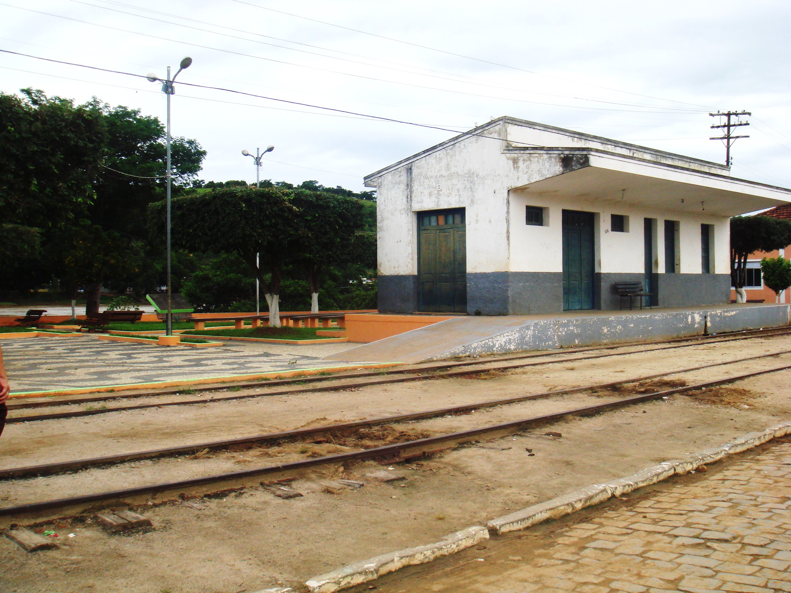 Três Irmãos railway station